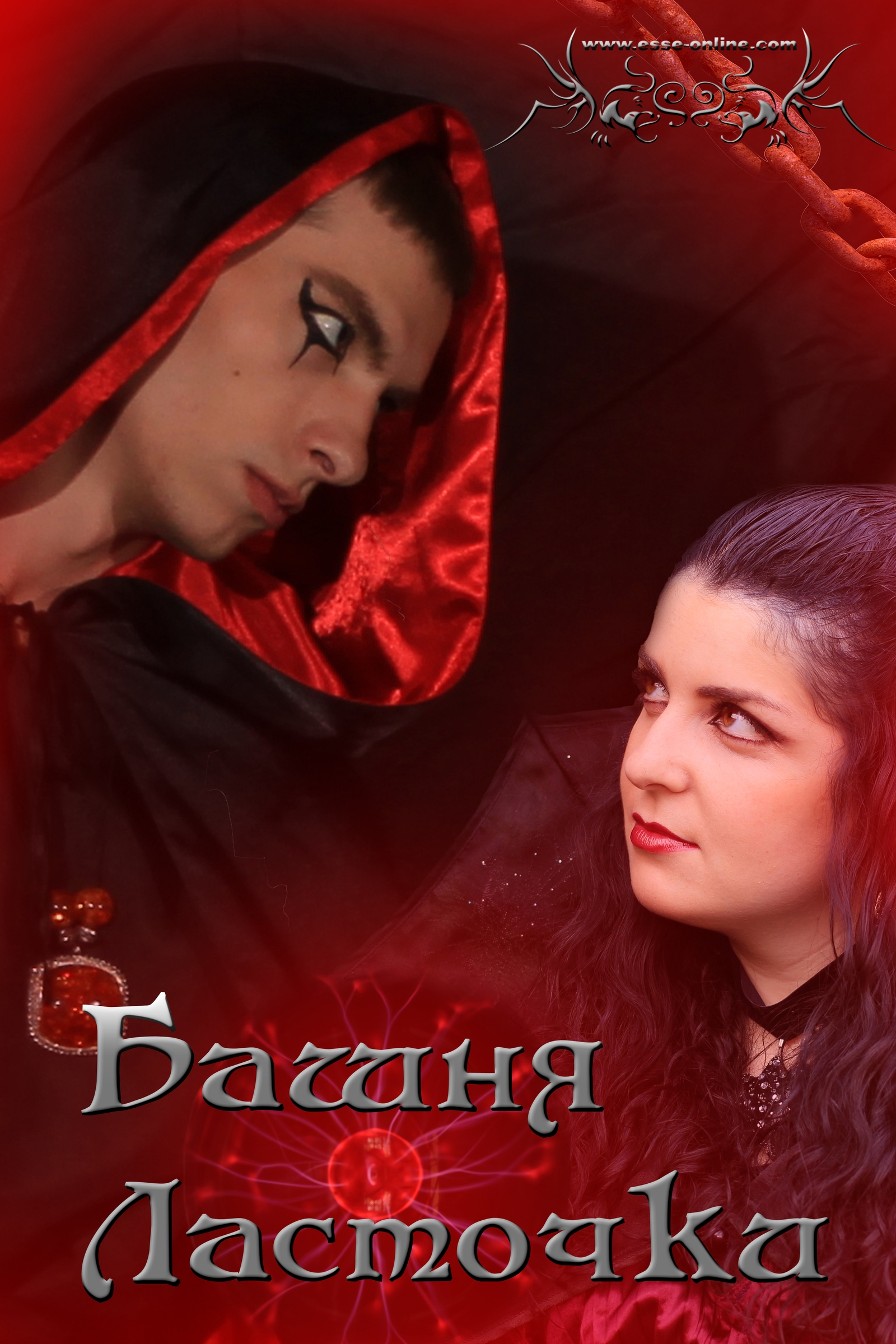 "The Swallow's Tower". Fantasy rock musical of group "ESSE" -"The Road with No Return", based on the saga of A. Sapkowski "The Witcher". Official poster. Scene 12. Symphonic rock-group "ESSE". Yury Sklyar (Vilgeforz of Roggeveen), Lyudmila Dymkova (Yennefer of Vengerberg). (Poster - Anastasia Vorotnikova. Photo - Yuri Osadchy.)